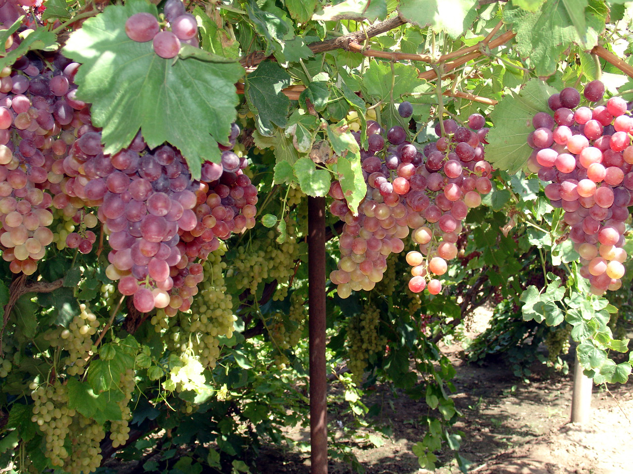 Vineyards in Ararat valley.